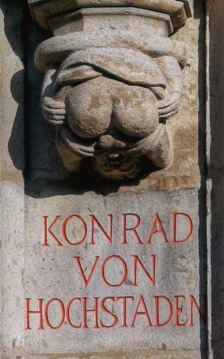 An autofellatio-performing grotesque below a statue of Konrad von Hochstaden. Also known as "Kölner Spiegel". Sculptor: Herbert Rausch